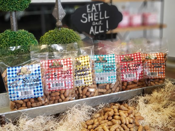 Peanut Trading Company Deep Fried Peanuts